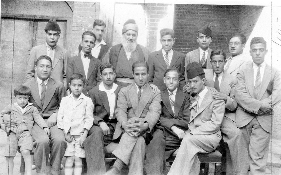 Ben Zion Israeli meets the AHIAVAR group in Baghdad